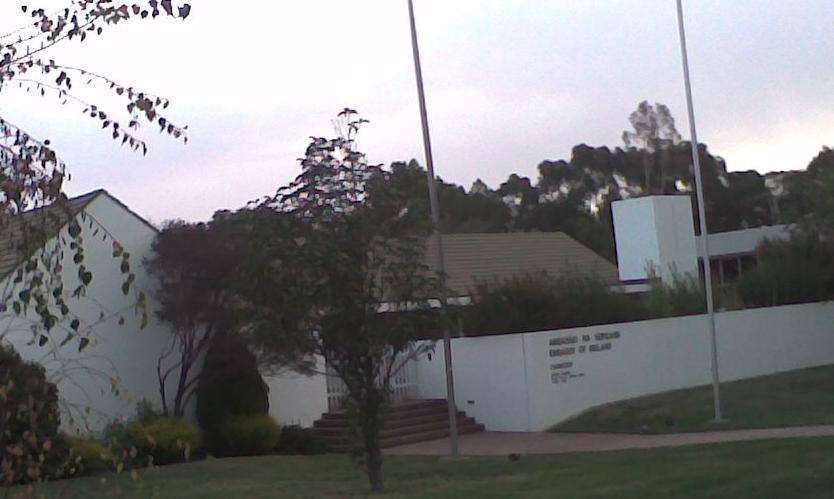 Embassy of the Republic of Ireland in Canberra, Australia